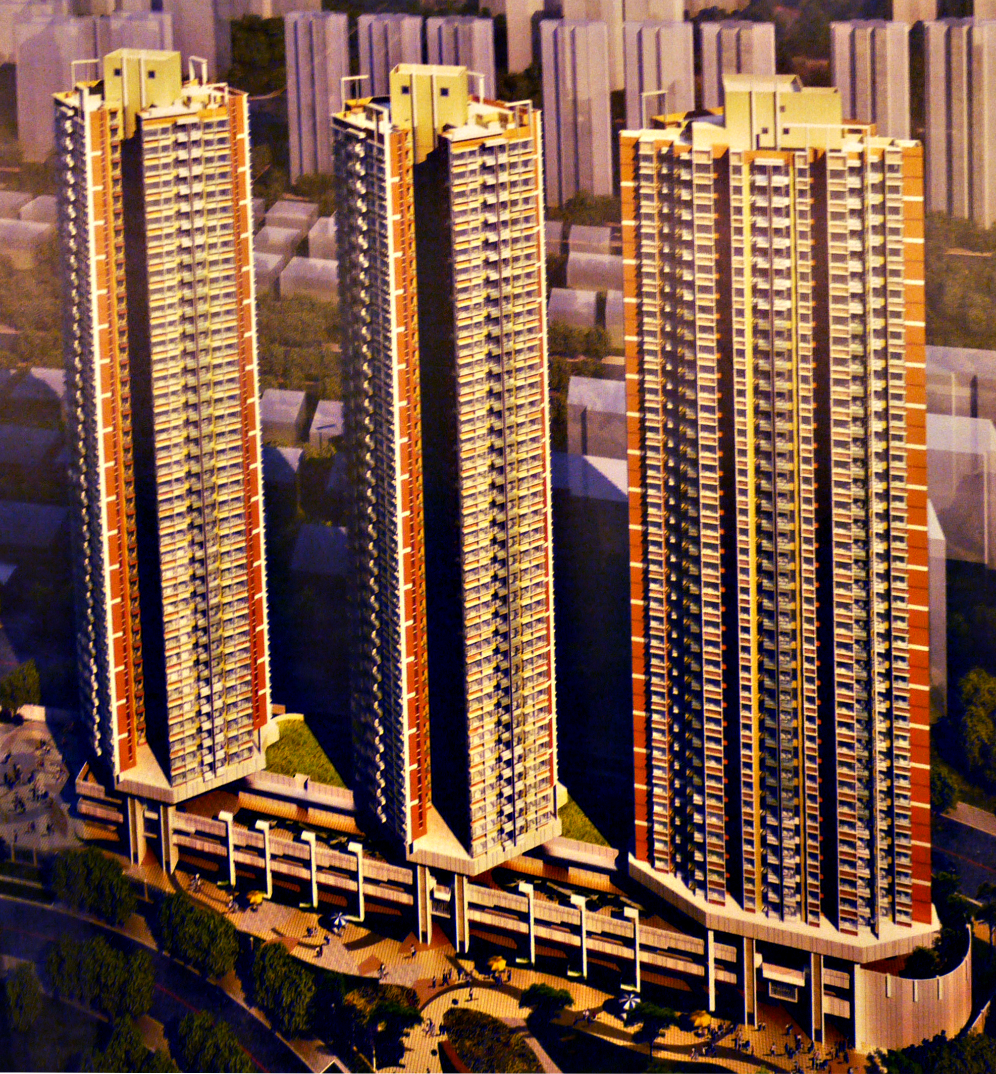 Greenview Villa